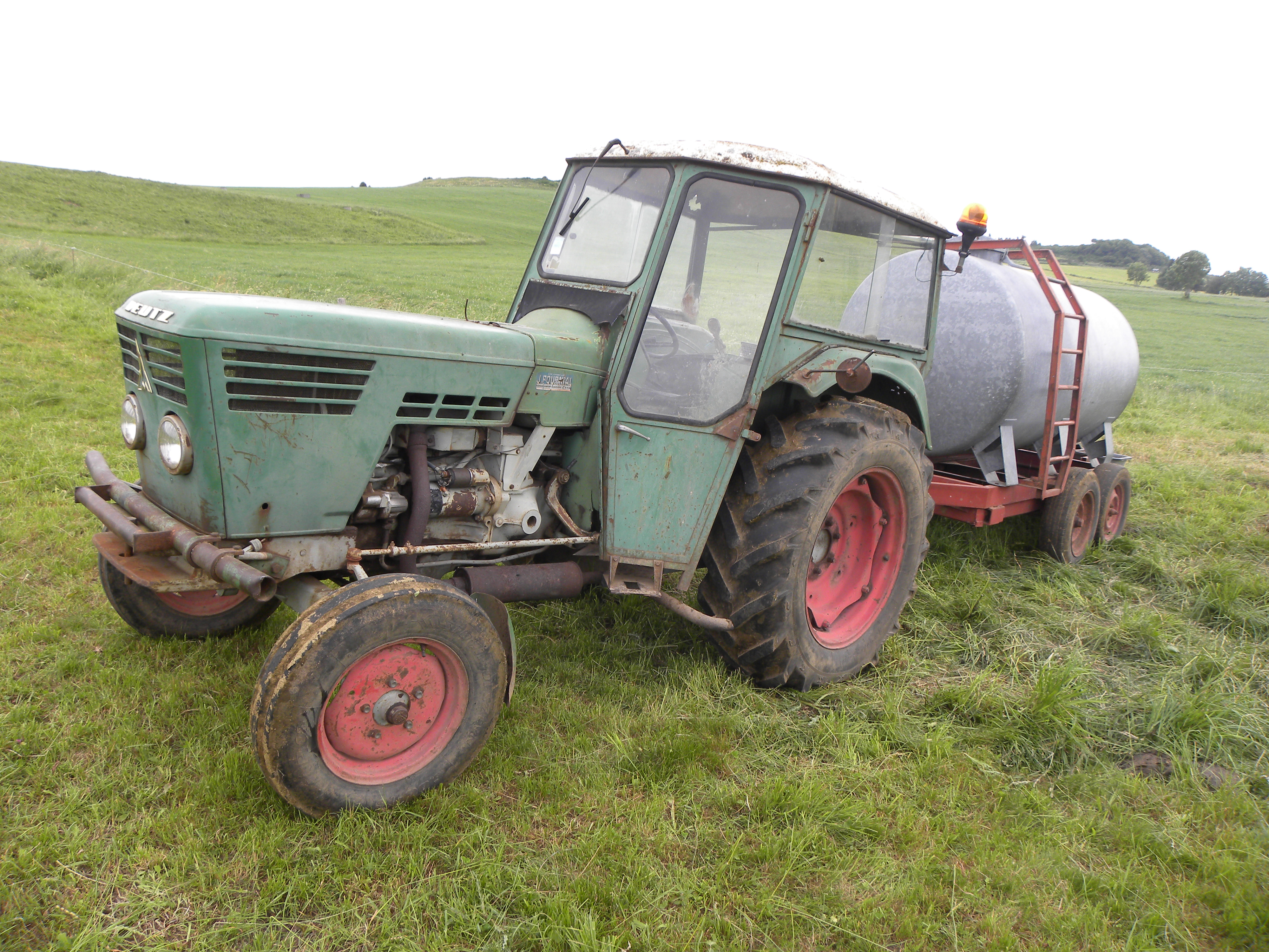 Deutz D 4006 produced from 1968 to 1981